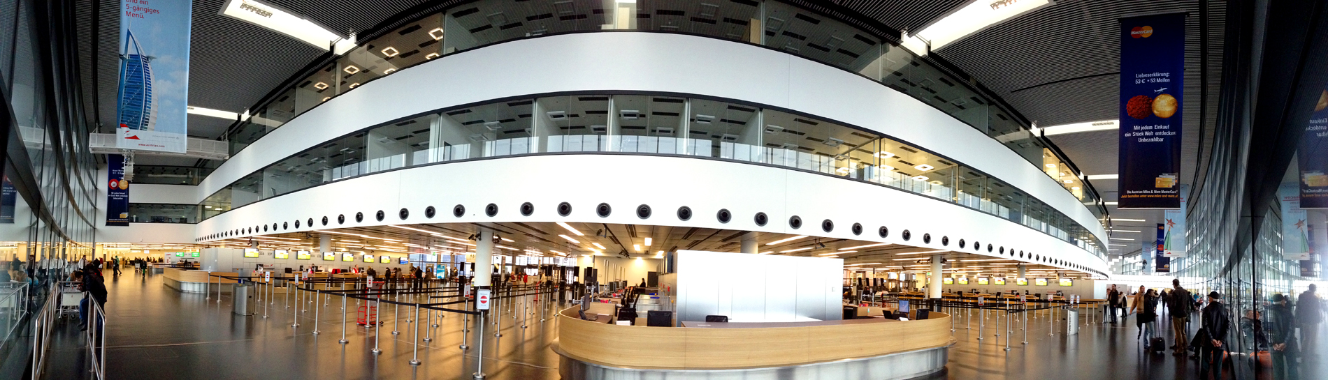 departure level